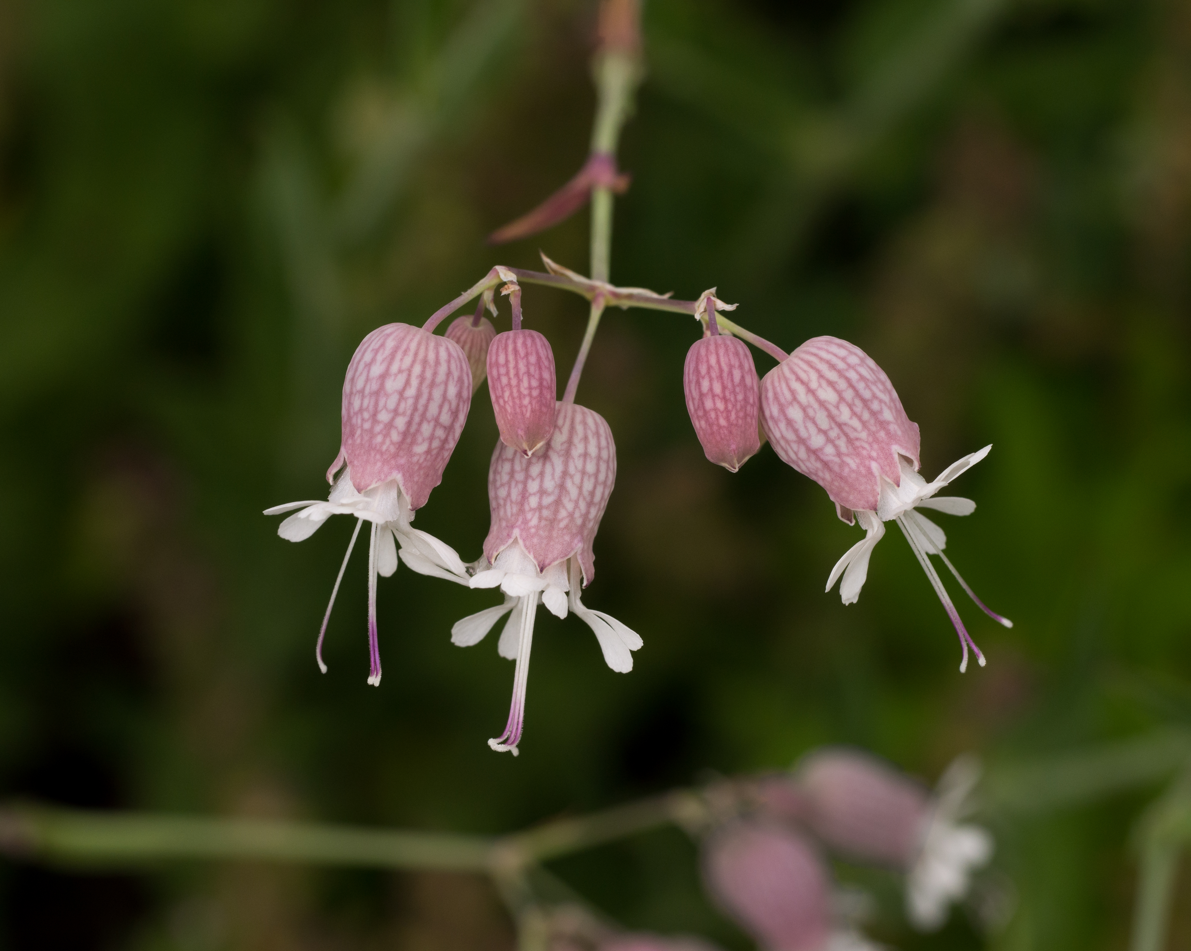 Silene vulgaris in the John Denver Sanctuary in Aspen, Colorado.